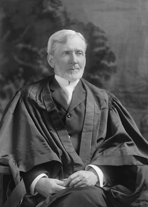 Justice McKenna from C. M. Bell photographic studio